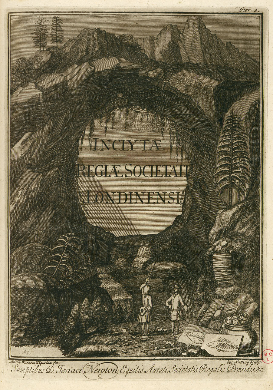 Engraving by Joseph Nutting and Anna Waser (artist)